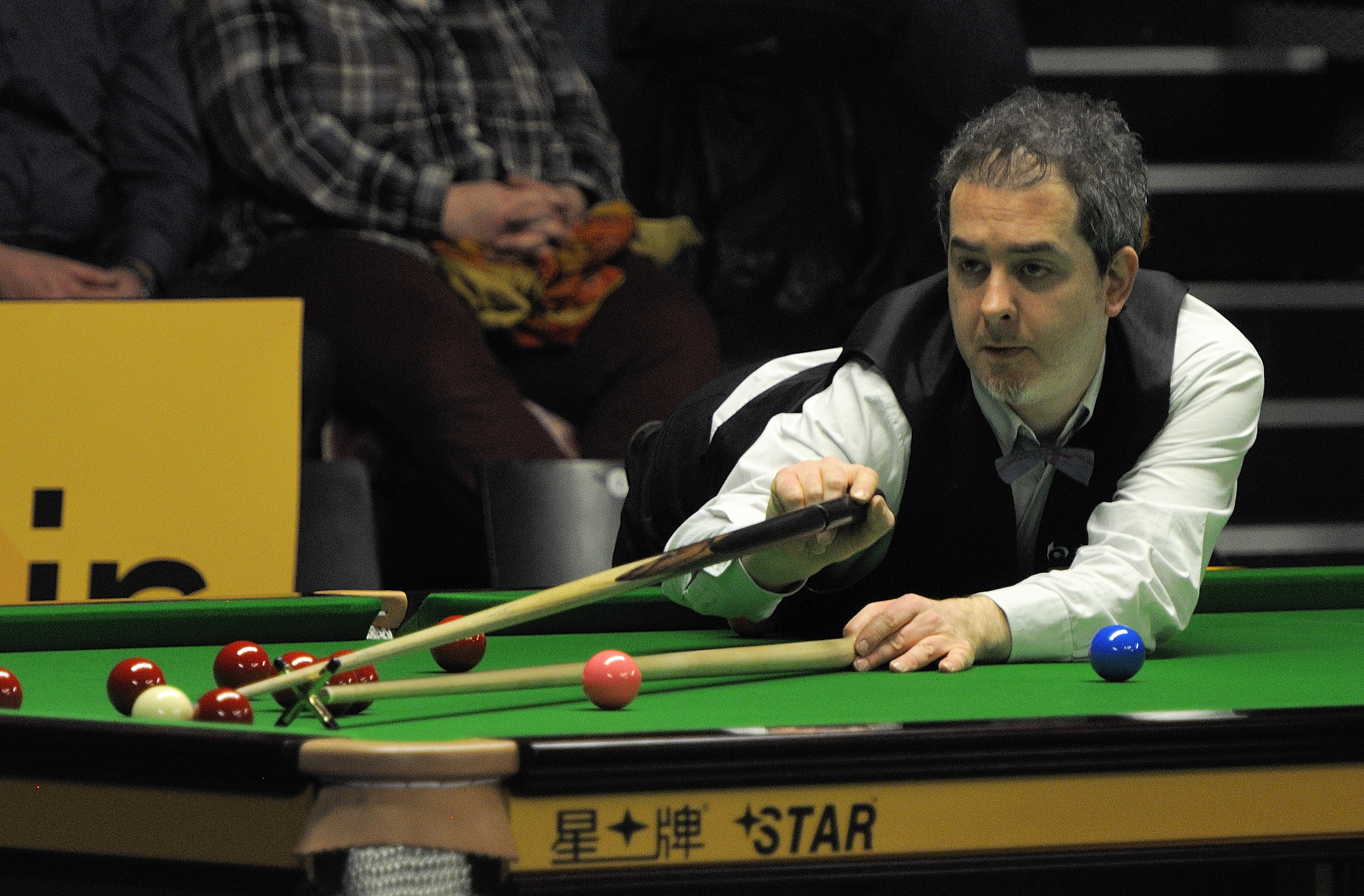 Picture taken in Berlin during the Snooker German Masters in 2013. Anthony Hamilton.